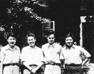 An old photo of 4 famous Chinese scientists